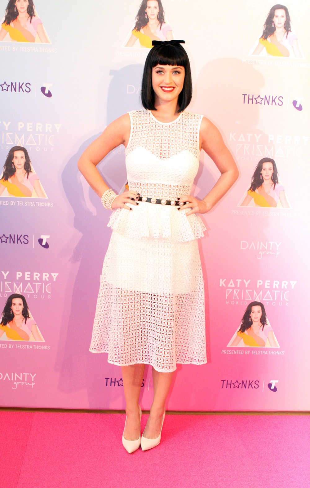 Katy Perry The Prismatic World Tour Sydney Australia